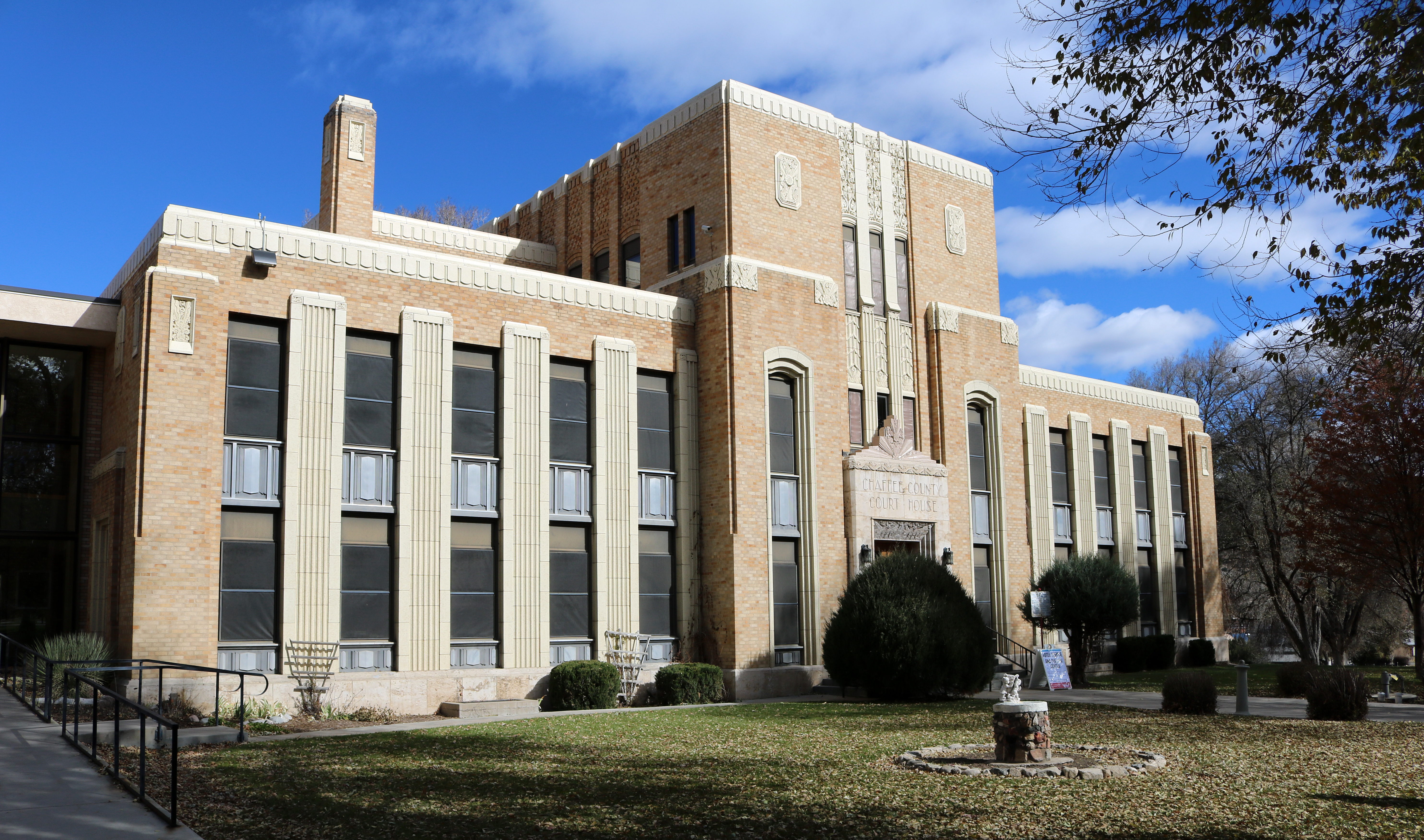 The building that served as the courthouse in Chaffee County, Colorado from 1932-1992. The building is located at 104 Crestone Avenue in Salida, Colorado. The architectural style is art deco, and the architect was Walter DeMordaunt. The building served as the county courthouse starting several years after the county seat moved from Buena Vista to Salida until it was replaced in 1992. It now houses county offices, and the courthouse functions have moved to the nearby Chaffee County Justice Center building.